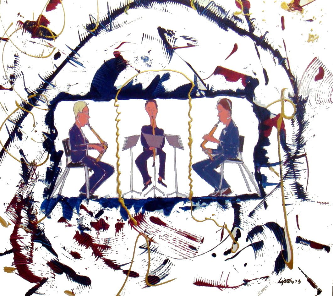 Kay Lipton who is renowned for her Art inspired by Classical Music offered this, her art work, for Auction to The Churchill Fellowship Foundation of AUSTRALIA.